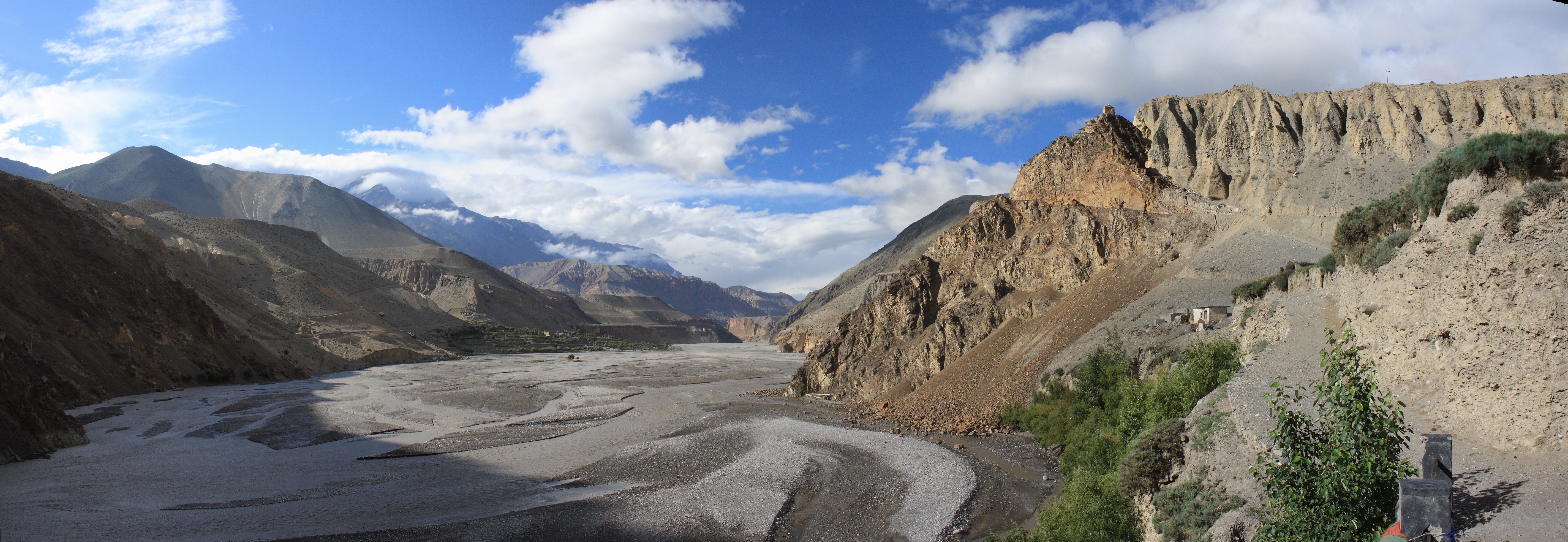 Gandaki River at the village of Kagbeni, Nepal. Looking northwards, upstream.